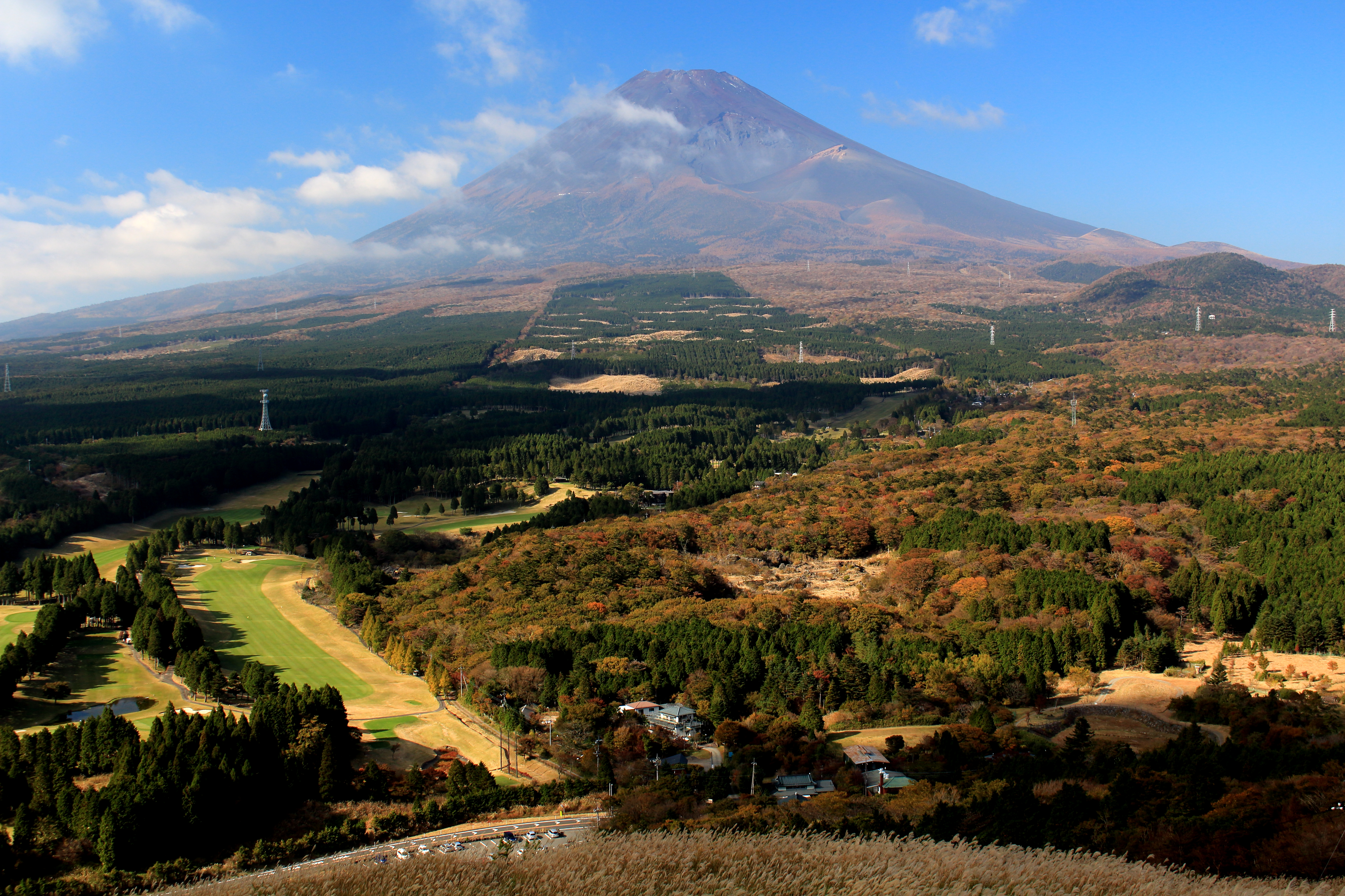 Mount Fuji seen from Jurigi Plateau in Susono, Shizuoka prefecture, Japan.